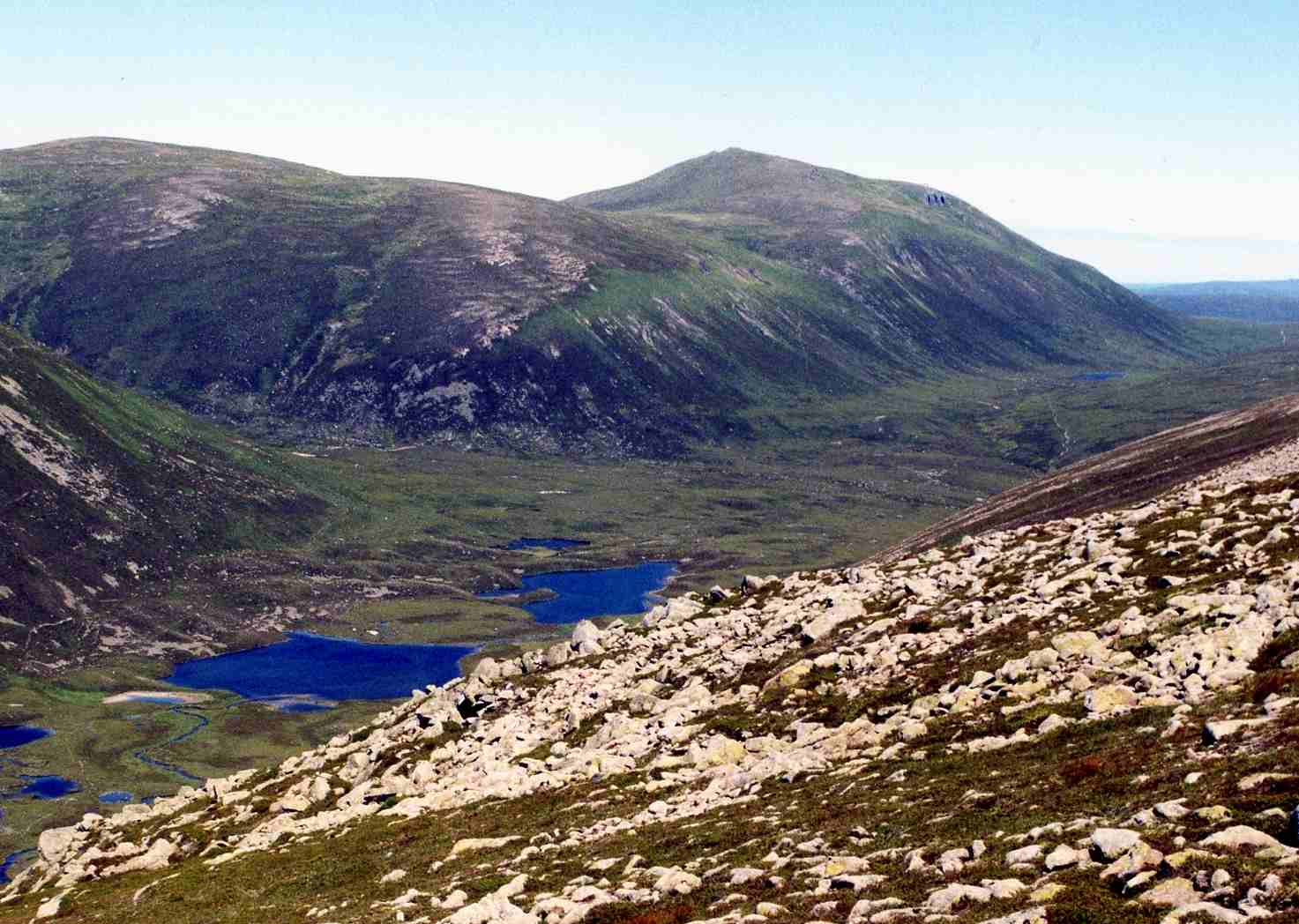 Personal photograph taken by Mick Knapton